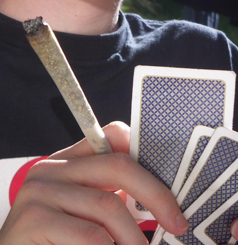 A cannabis joint mixed with Tobacco. This is the most common way to consume cannabis in various parts of the world.